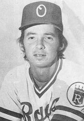 Professional baseball player Keith Drumright